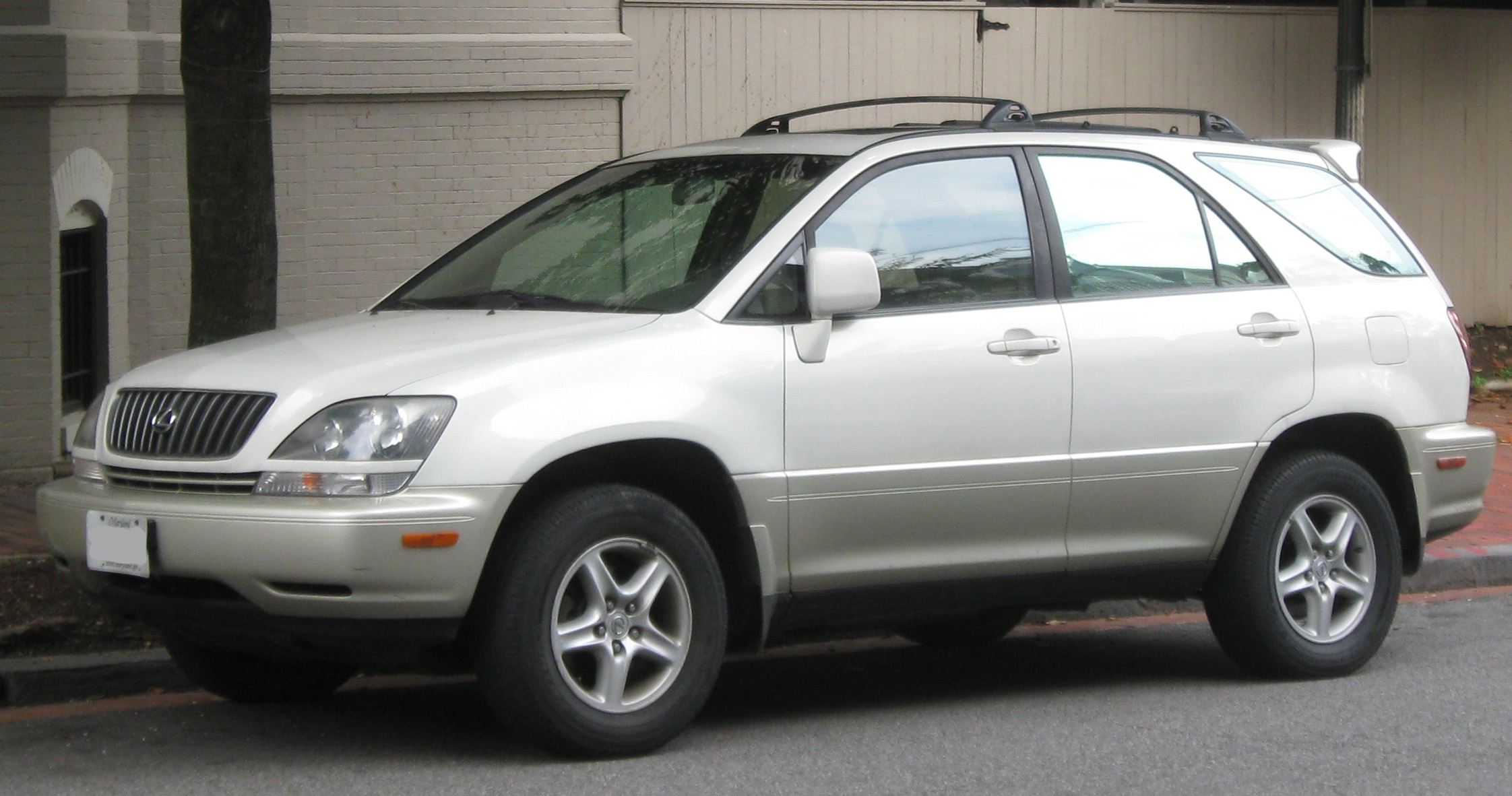 1999-2000 Lexus RX300 photographed in Washington, D.C., USA.